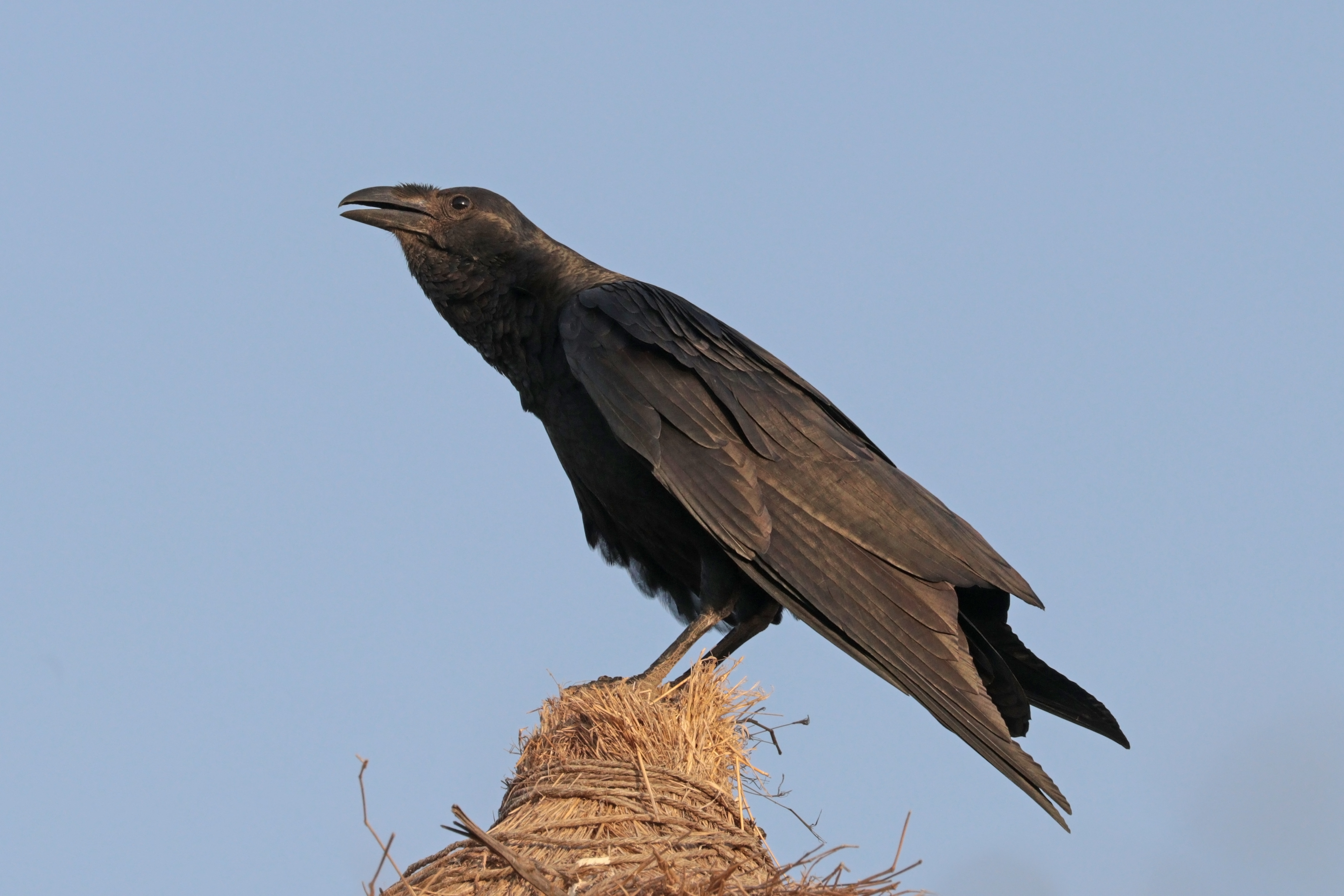 Fan-tailed raven (Corvus rhipidurus), Awash National Park, Ethiopia